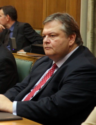 Evangelos Venizelos, Minister for National Defence Cropped from a picture originally posted to Flickr as Πρώτη συνεδρίαση Υπουργικού Συμβουλίου